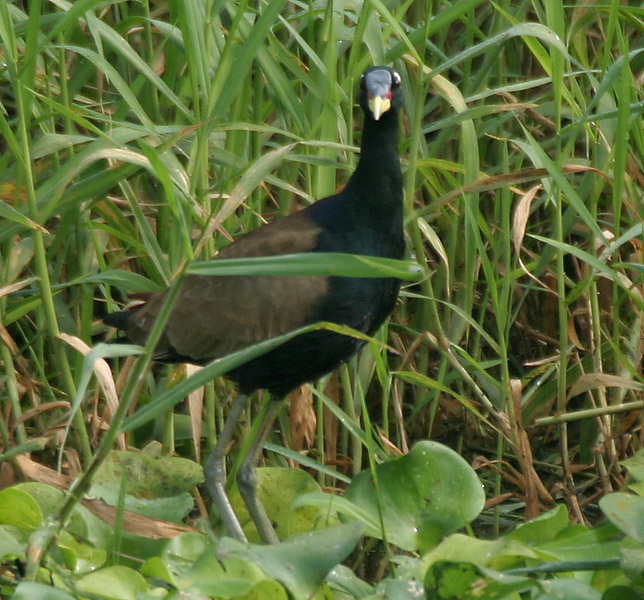 Bronze-winged Jacana Metopidius indicus in Uppalapadu, Andhra Pradesh, India.